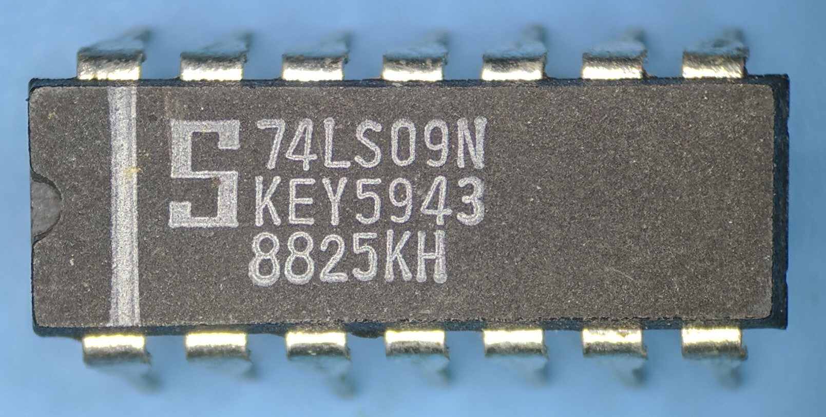 Package top of a Signetics 74LS09 chip, datecode 8825.